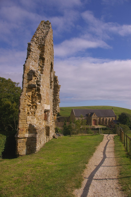 Abbotsbury Abbey ruins